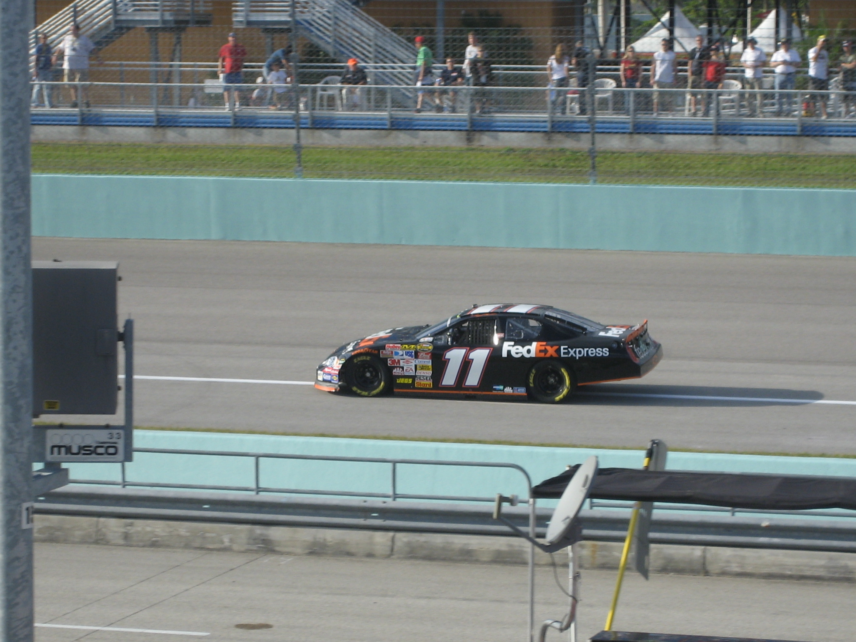 Denny Hamlin practicing for the 2007 Ford 400 at the Homestead-Miami Speedway.